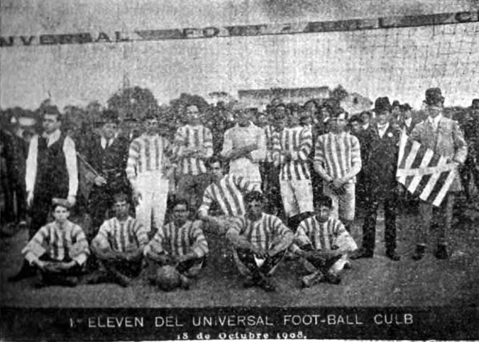 Uruguayan football team Universal F.C. that played a friendly match v. Argentine Boca Juniors.